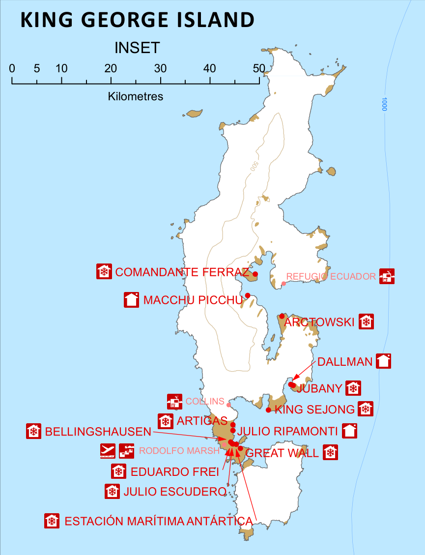 Research stations on King George Island, South Shetland Islands